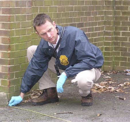 A U.S. Army Criminal Investigation Command special agent processes a crime scene on an Army installation. Thirty new sexual-assault investigators will be assigned to various major Army installations worldwide to assume the lead in forming special victim investigative units in support of the Armyâ€™s Sexual Harassment/Assault Prevention and Response Program known as SHARP.